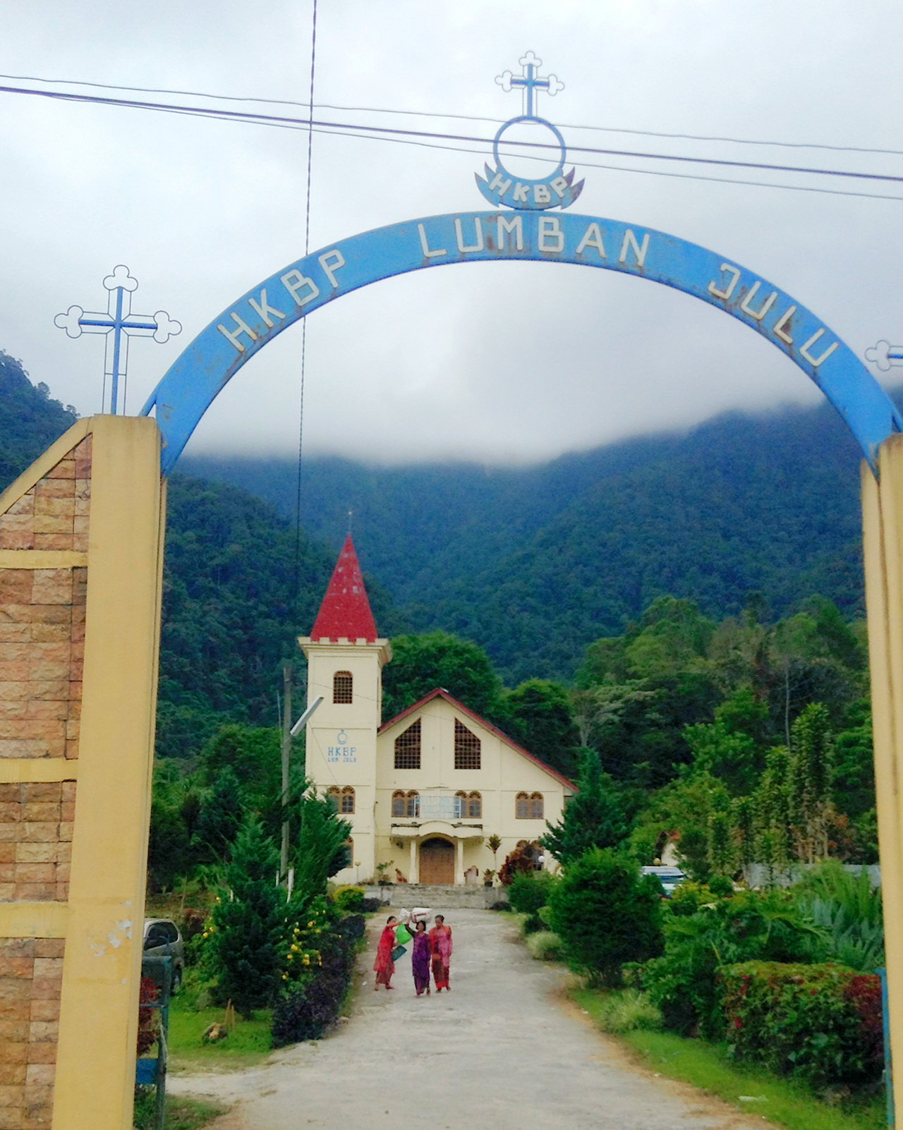 HKBP Lumban Julu, Church in Jumban Julu, Toba Samosir